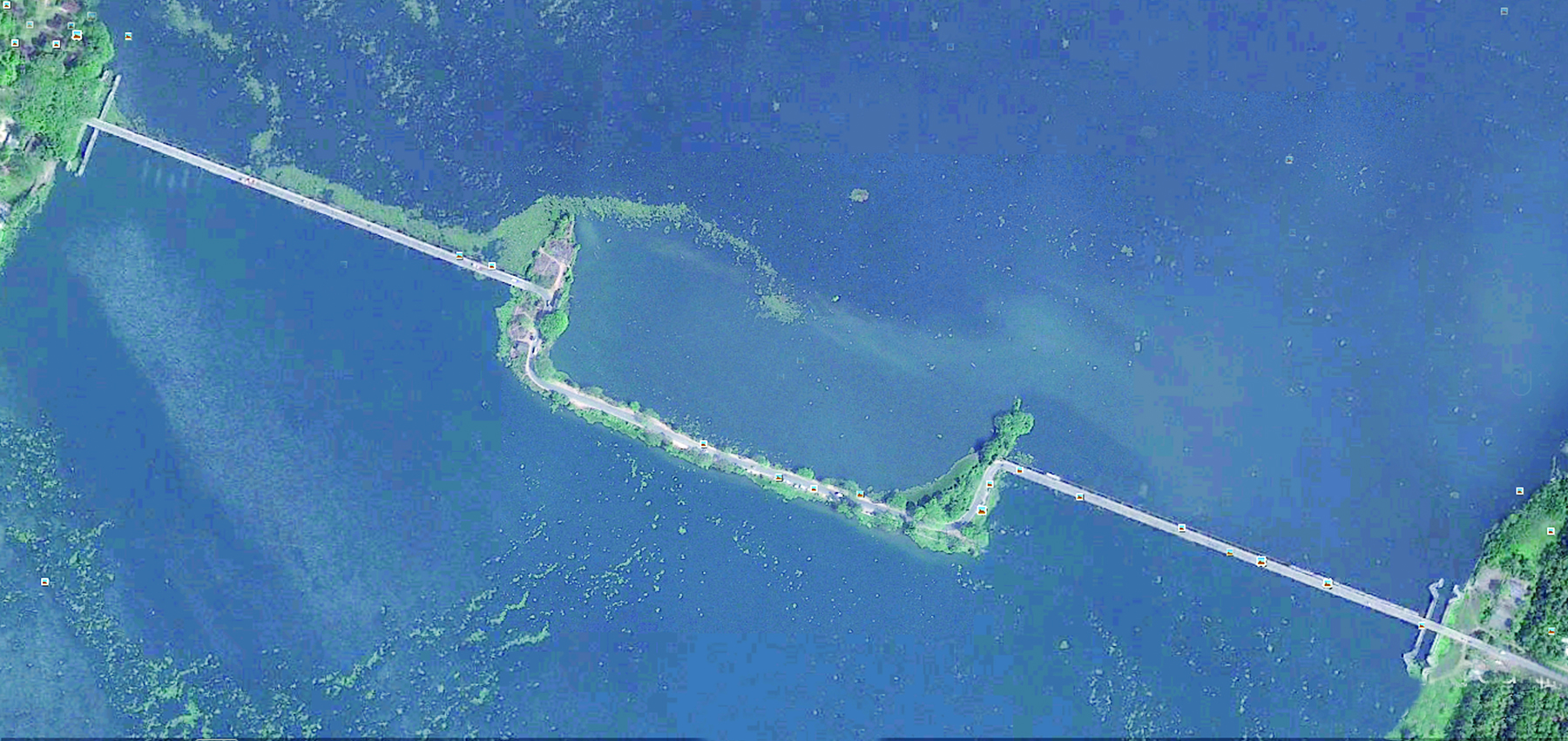 തണ്ണീര്‍മുക്കം ബണ്ടിന്റെ ഉപഗ്രഹക്കാഴ്ച. ബണ്ടിന്റെ നിര്‍മ്മാണം അപൂര്‍ണമാണ്. കായലിന്റെ നടുവിലുള്ള മൂന്നിലൊന്ന് ഭാഗം മണ്ണിട്ടു നികത്തിയിരിക്കുകയാണ്. ഇതുമൂലം എല്ലാ ഷട്ടറുകളും തുറന്നാലും ഭാഗികമായി മാത്രമേ ജലപ്രവാഹം സാധ്യമാകുകയുള്ളു.